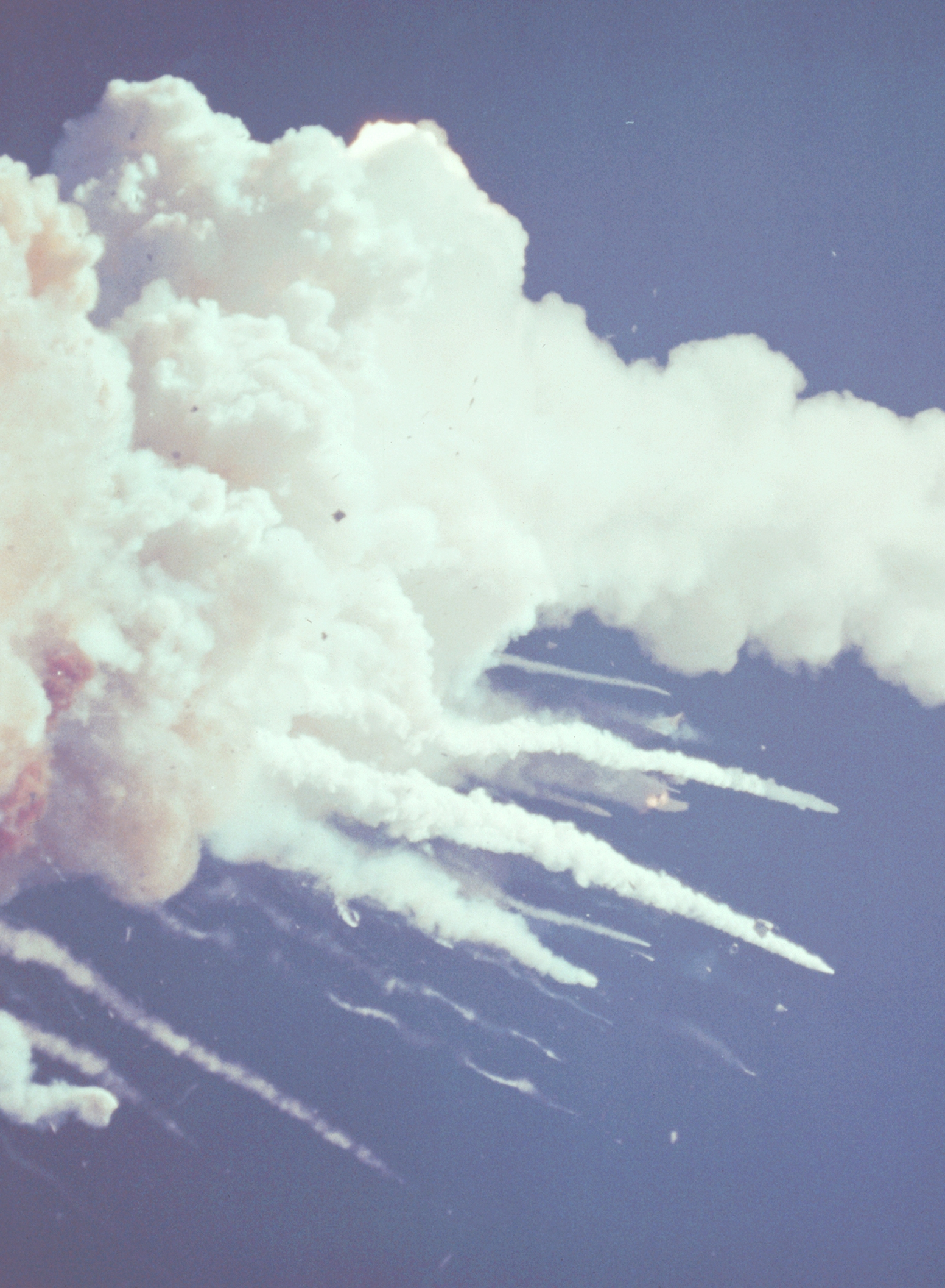 Destruction of the Space Shuttle Challenger. At about 76 seconds, fragments of the Orbiter can be seen tumbling against a background of fire, smoke and vaporized propellants from the External Tank. The left Solid Rocket Booster (SRB) flies rampant, still thrusting. The reddish-brown cloud envelops the disintegrating Orbiter. The color is indicative of the nitrogen tetroxide oxidizer propellant in the Orbiter Reaction Control System.